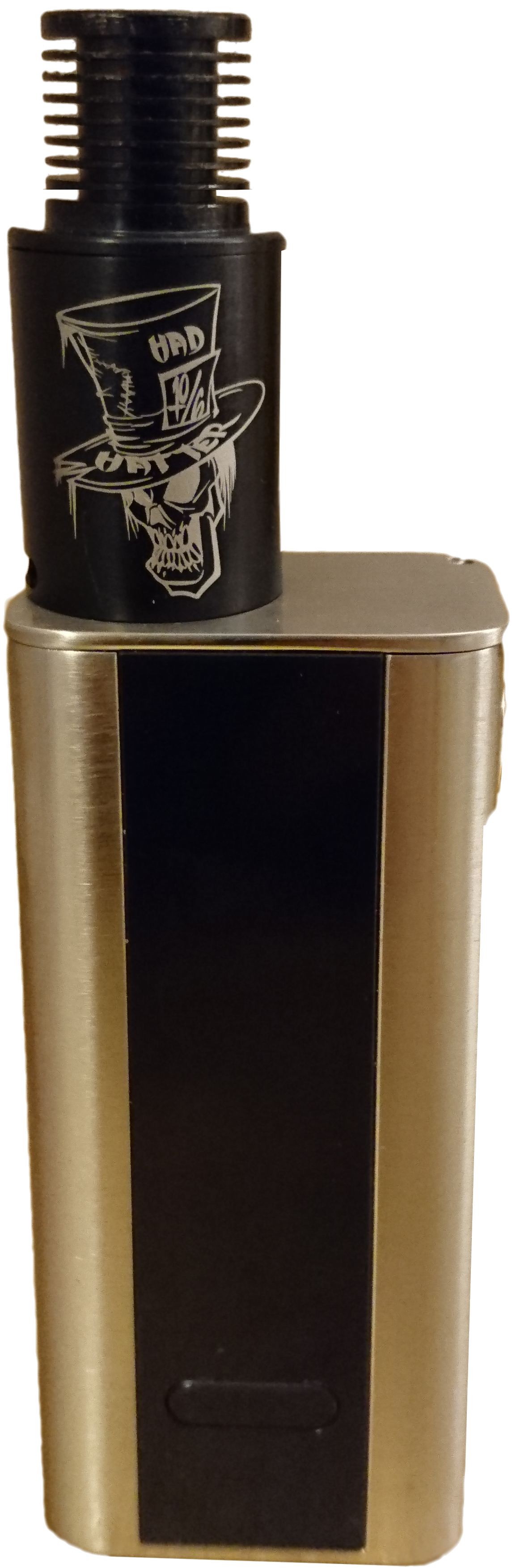 Joyetech Cuboid box mod e cigarette fitted with a Mad Hatter RDA